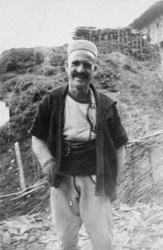 Macedonian Albanian men of Upper Reka region